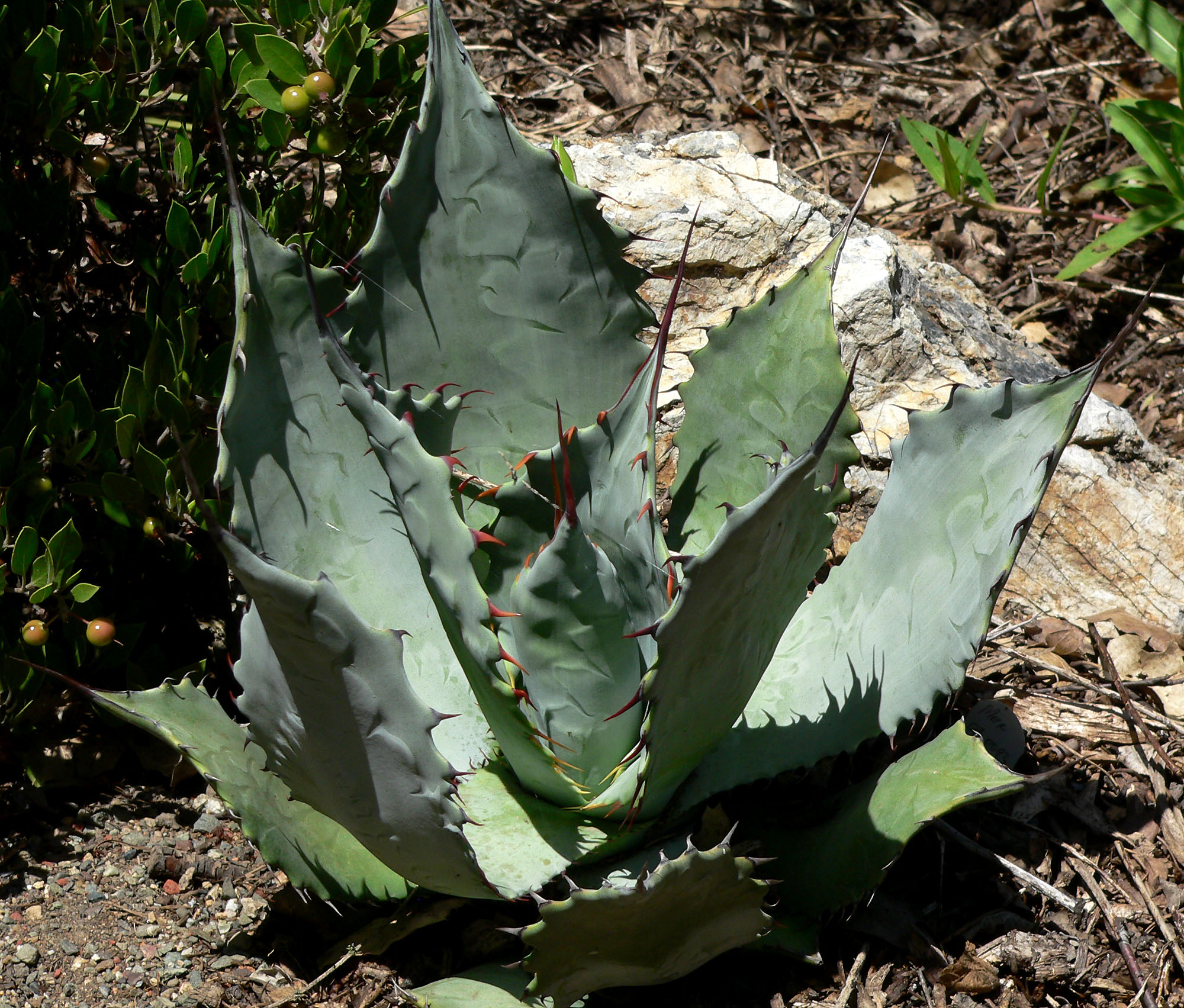 Agave shrevei subsp. shrevei at the University of California Botanical Garden, Berkeley, California